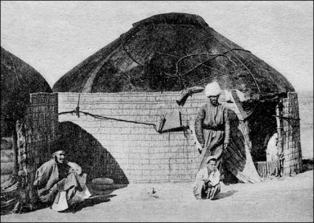 Tekkes people kibitka